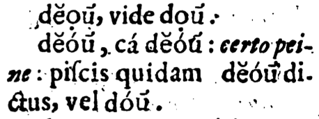 An example of a word containing a breve, acute, and apex, for comparison, in Dictionarium Annamiticum Lusitanum et Latinum (1651). (Entry “dĕóu᷄”, column 169, PDF page 96.)